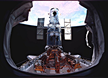 Hubble on the payload bay just prior to release with beautiful glowing color of earth in the background. SM3B : STS-109